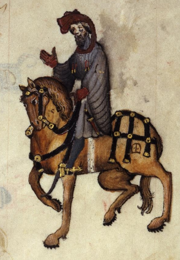 The Knight in the Ellesmere manuscript of Geoffrey Chaucer's Canterbury Tales.